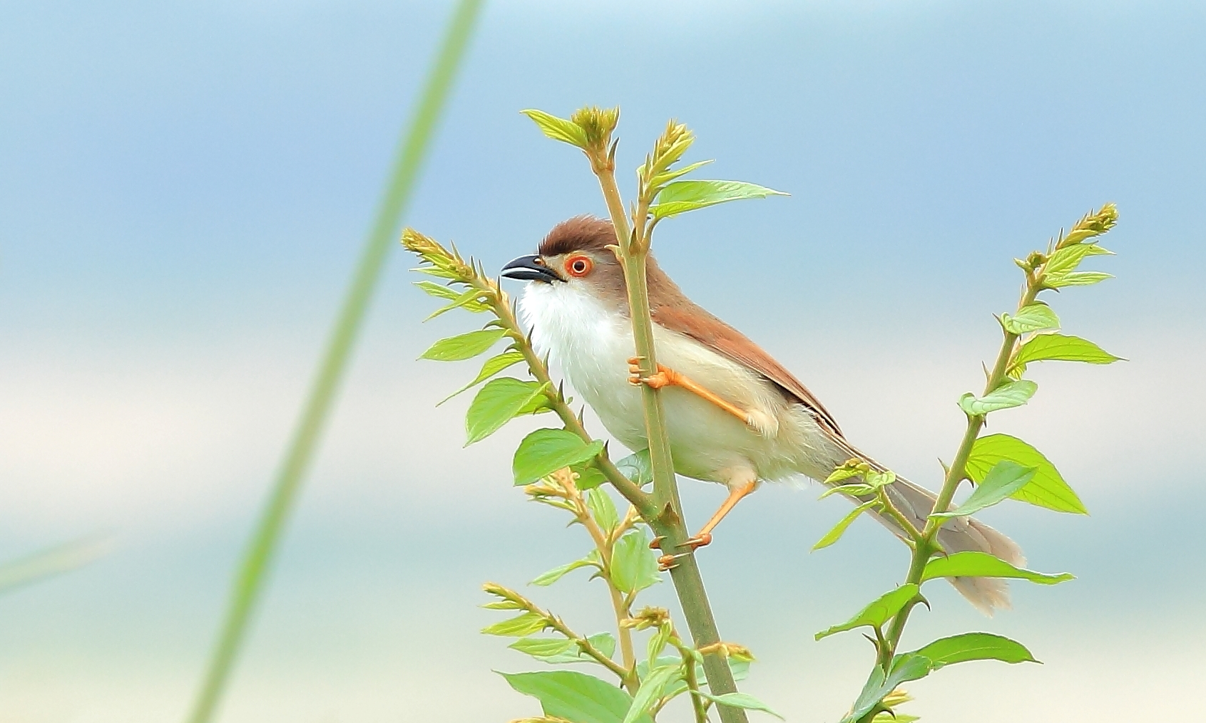 Yellow-eyed Babbler Chrysomma sinense is a passerine bird species found in groups in open grass and scrub in south Asia. The usual habitat is grassy or thorny scrub both in dry and wet regions as well as farmland. They are found mainly on the plains but can be found in the lower hills. They appear to nest cooperatively, the nest being a deep cone made with grass and lined with fine fibre.